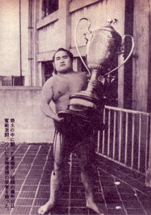 Taken in May 1945 when Bishuyama won the sumo championship (and won the cup shown) and therefore public domain